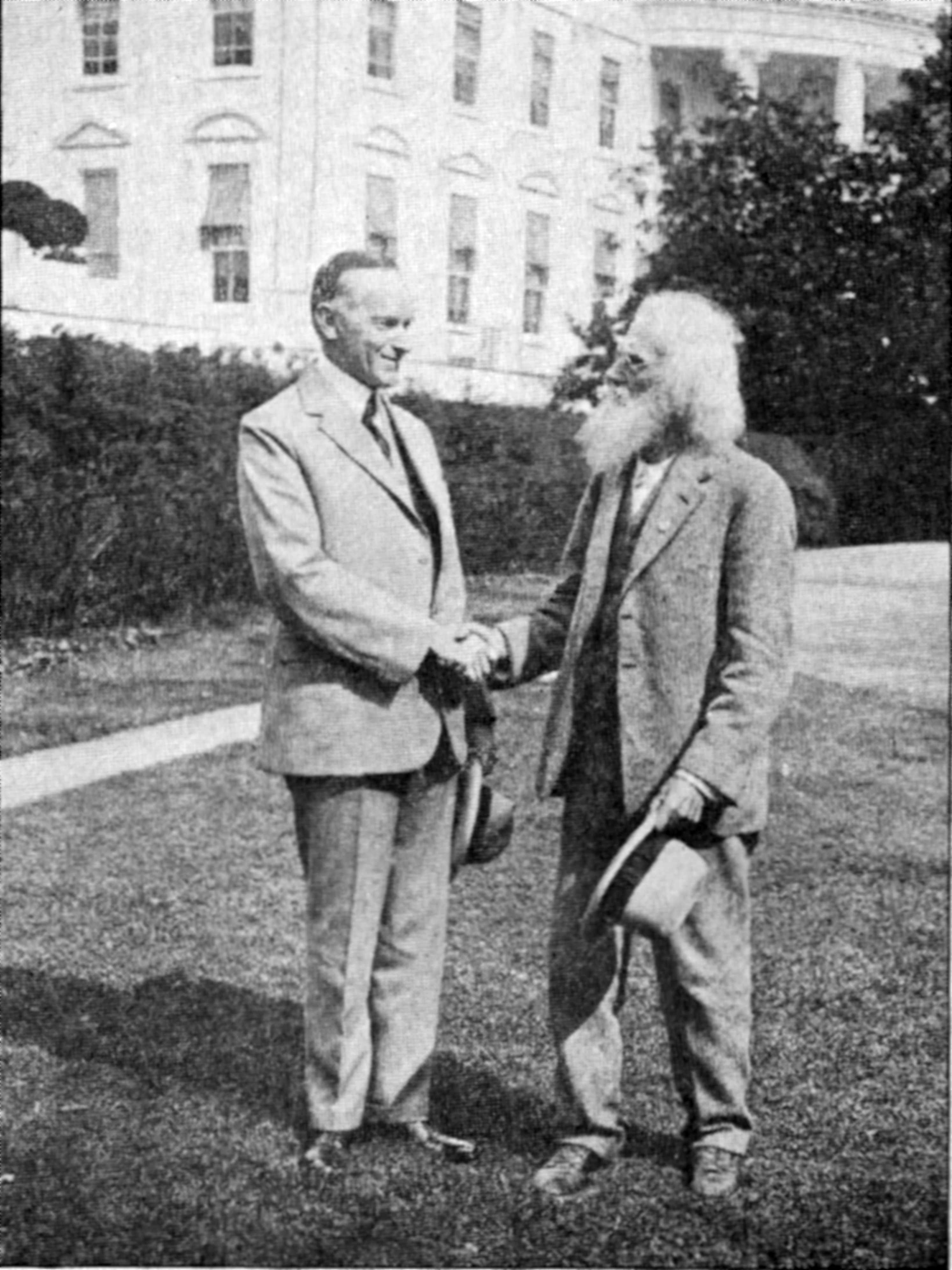 Ezra Meeker (right) shakes hands with President Calvin Coolidge, 1924